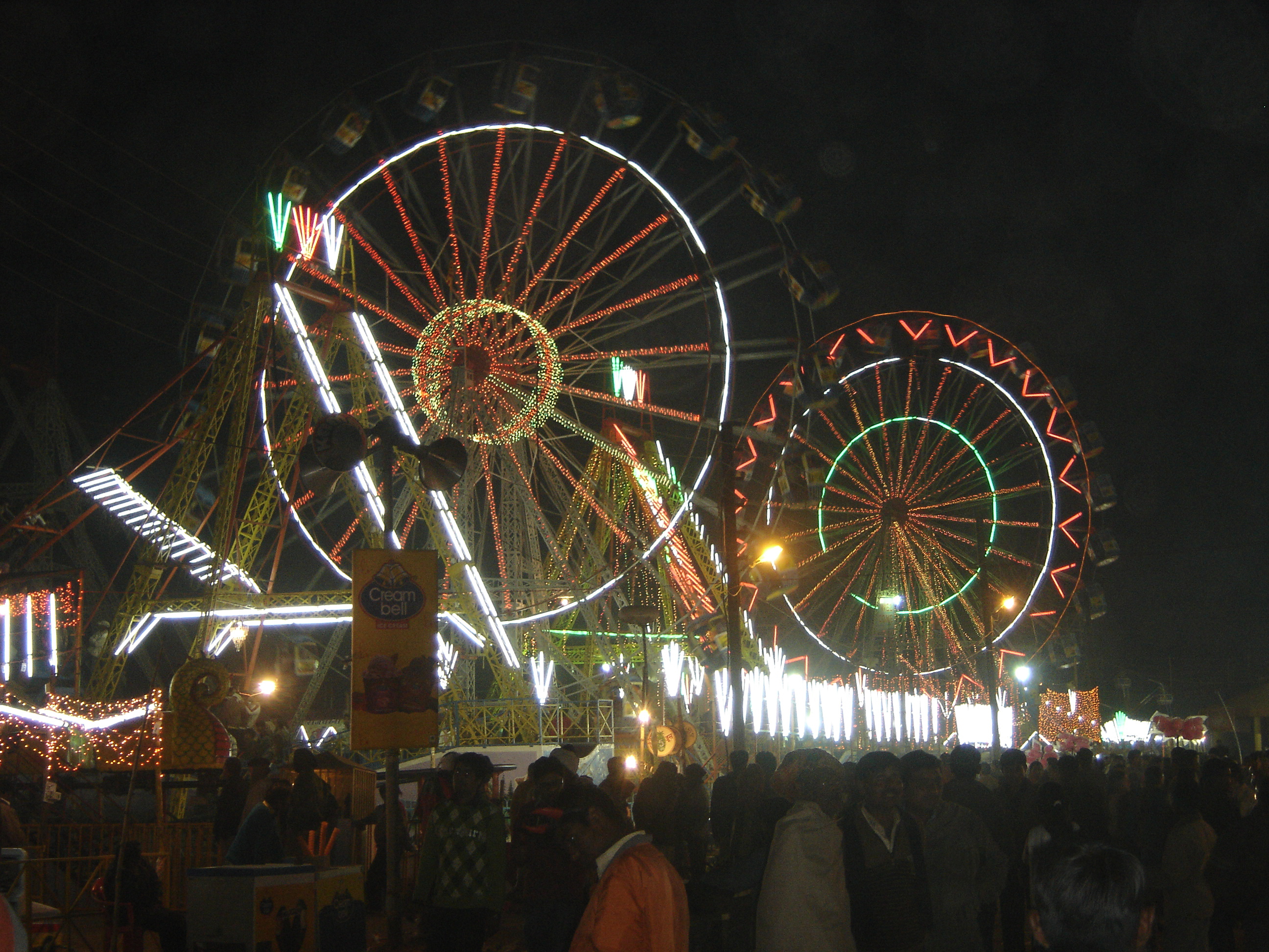 The ferris wheels at Gwalior Trade Fair